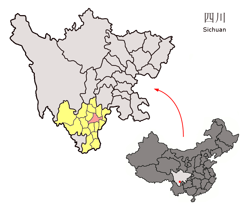 Location of Zhaojue County (pink) and Liangshan Prefecture (yellow) within Sichuan province of China Map drawn in september 2007 using various sources, mainly : Sichuan province administrative regions GIS data: 1:1M, County level, 1990 Sichuan Counties map from